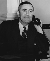 Portrait of G. Lloyd Spencer of Arkansas